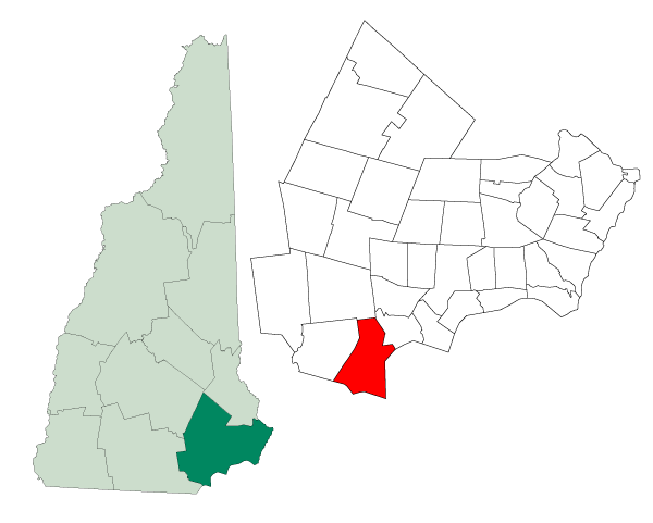 Map of a municipality in Rockingham County, New Hampshire